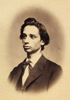 Fritz Emil Bendix (1847-1914), Danish cellist